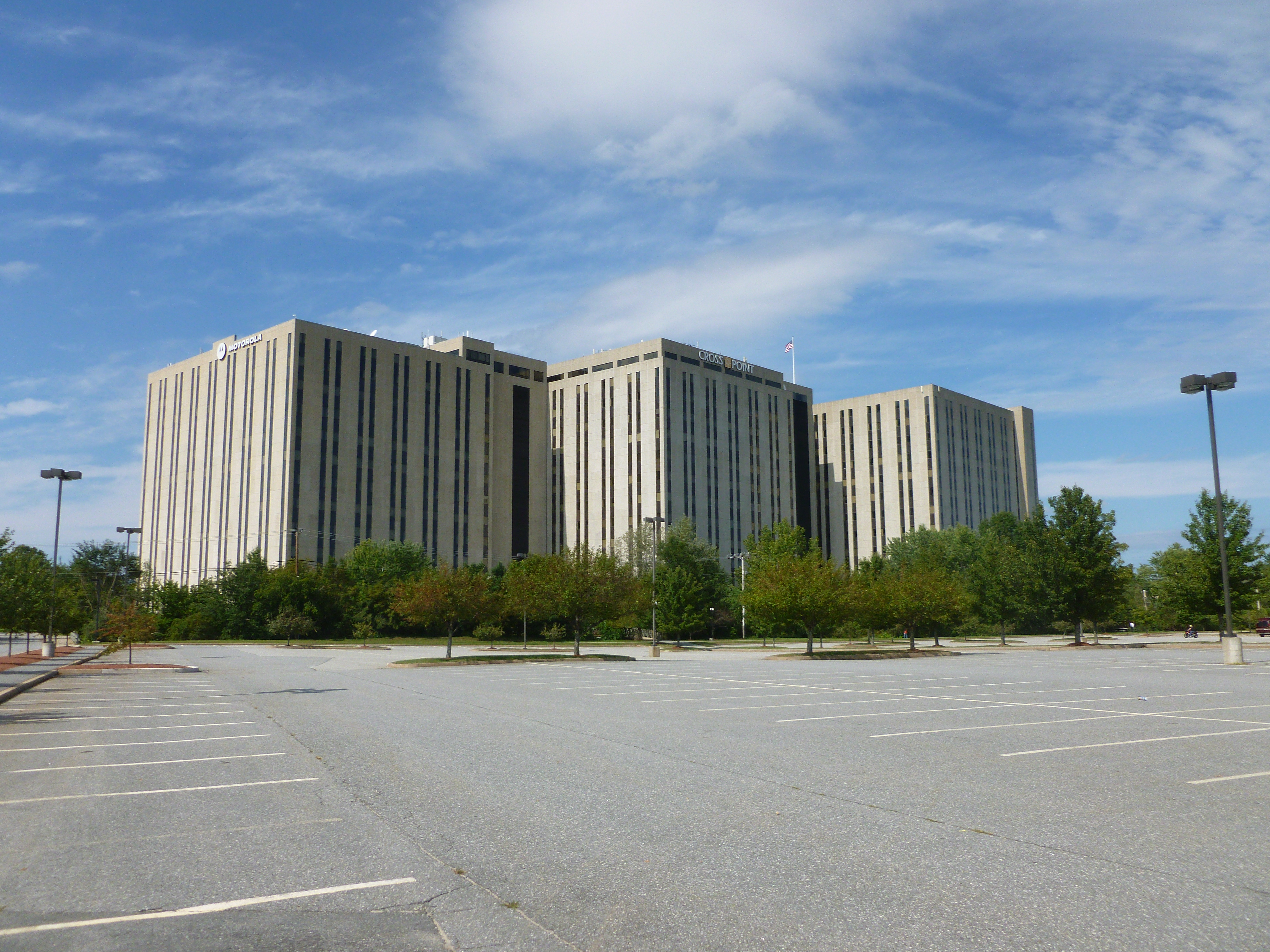 Cross Point Towers, located at 900 Chelmsford Street, Lowell, Massachusetts. Southwest and southeast sides of building shown.